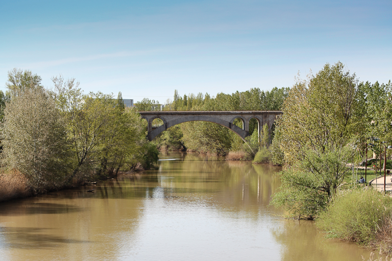 In the Spanish wine region of Ribera del Duero